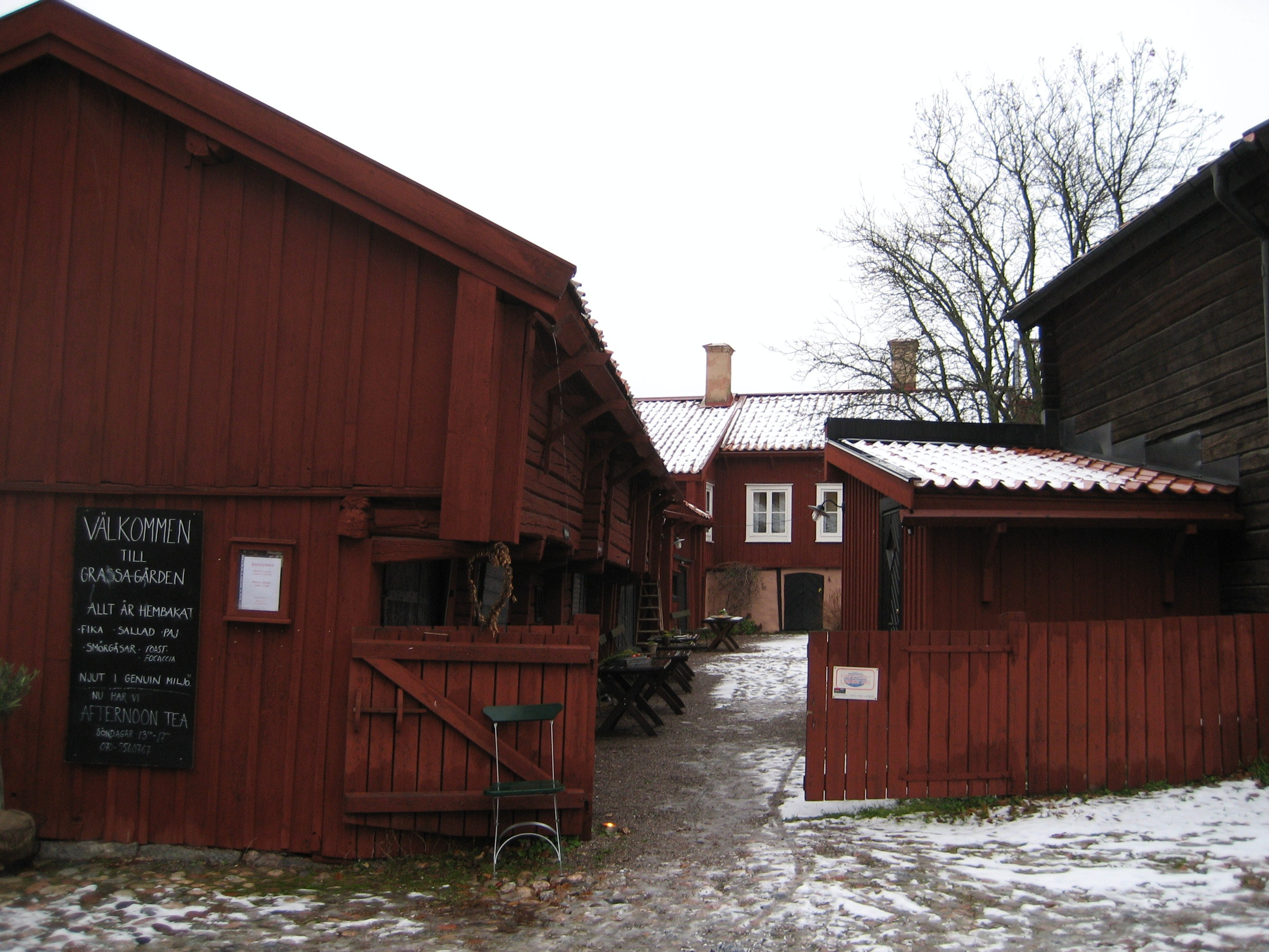 Grassagården in Strängnäs, November 2010